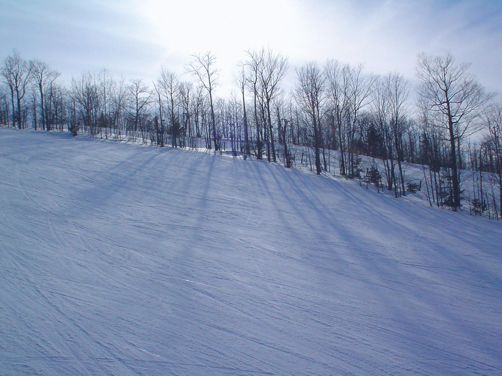 Just a cool shot of the trees and run sht from the lift.